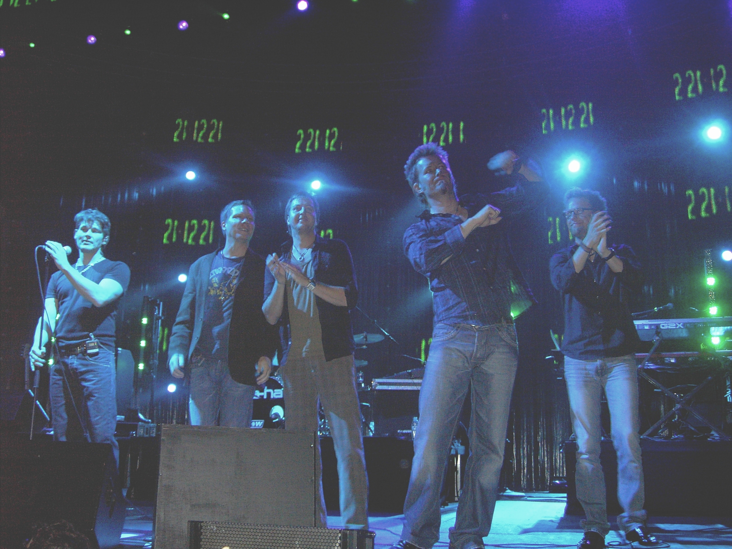 a-ha live at Cologne, 29th Oct. 2005